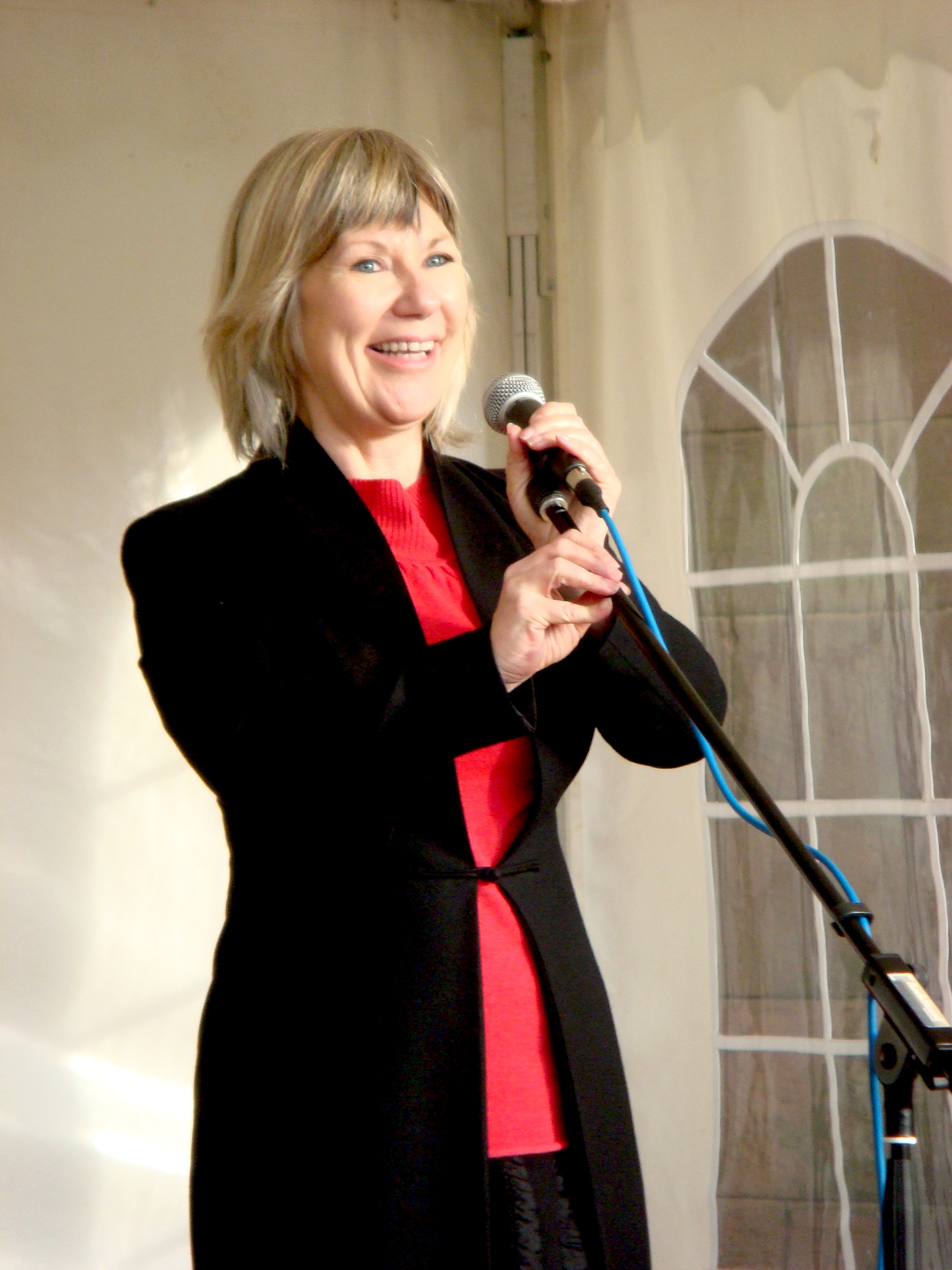 Judith ("Jude") Pamela Kelly CBE (born 24 March 1954) is a theatre director and producer from Liverpool, England.[1] She is currently the Artistic Director of the Southbank Centre in London